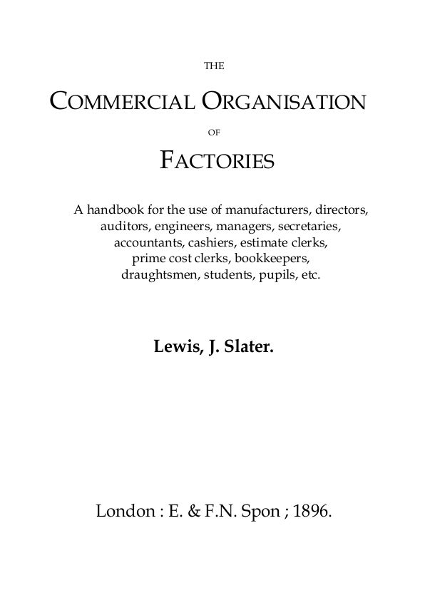 Title page, 1896 (reconstruction)